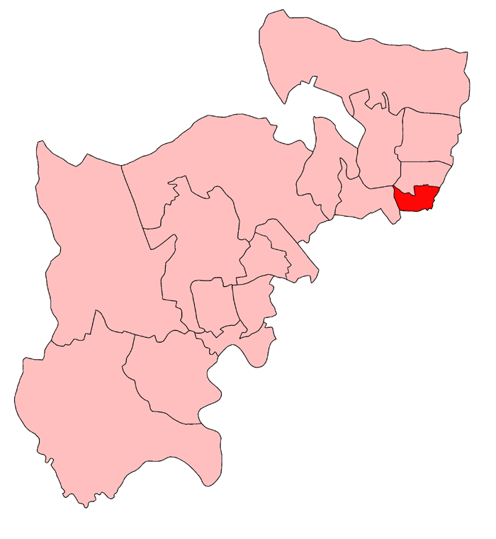 A map of Tottenham South constituency within Middlesex, as it existed from 1918 to 1950.